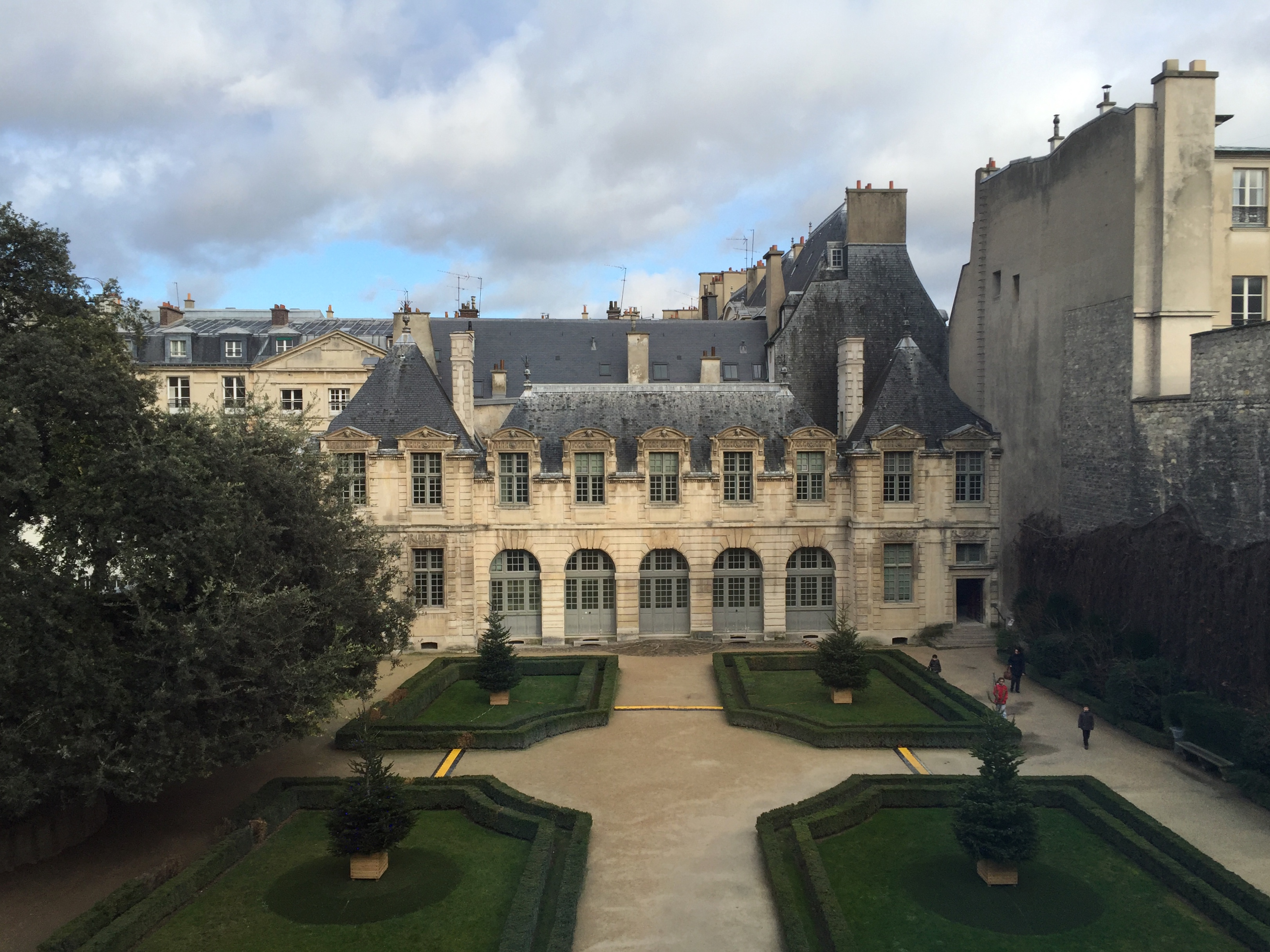 Orangery and gardens of the Hôtel de Sully in Paris.